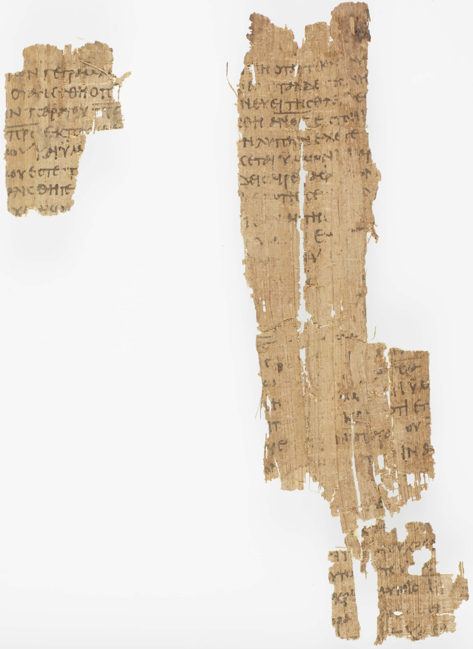 Papyrus 22 - Papyrus Oxyrhynchus 1228 - Glasgow University Library, MS Gen 1026/13 - Gospel of John 15:25–16:2.21–32